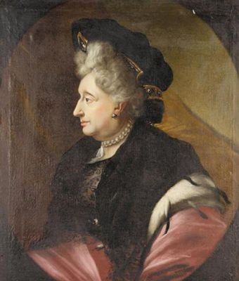 Sophia of the Palatinate (1630-1714), dowager electress of Hanover